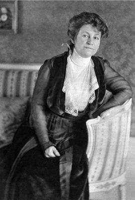 Magna Sunnerdahl (1863-1935) was the owner of Smedslätten's farm in Bromma, Stockholm, she inherited a great fortune and she was a major donor.